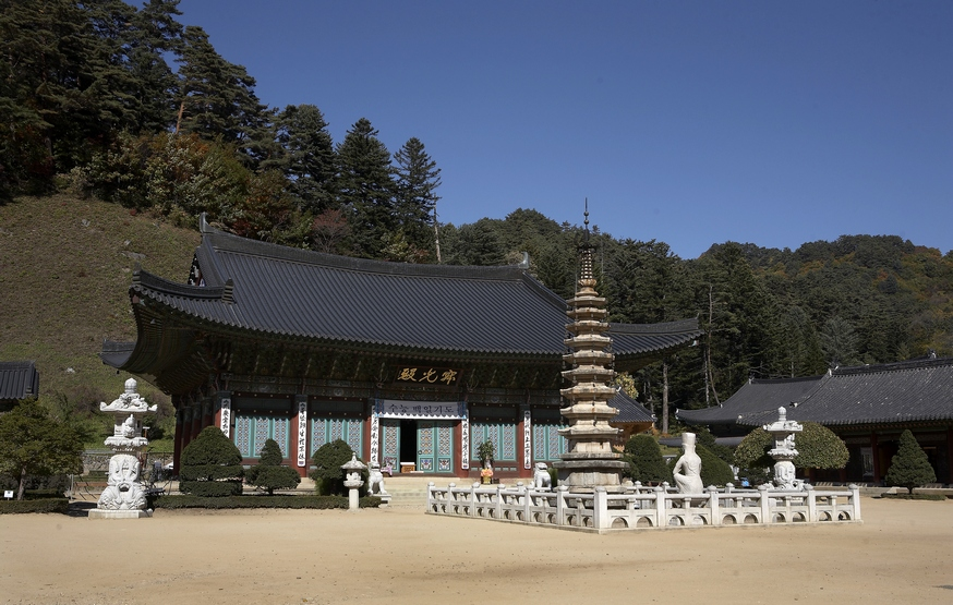 Woljeong temple 1